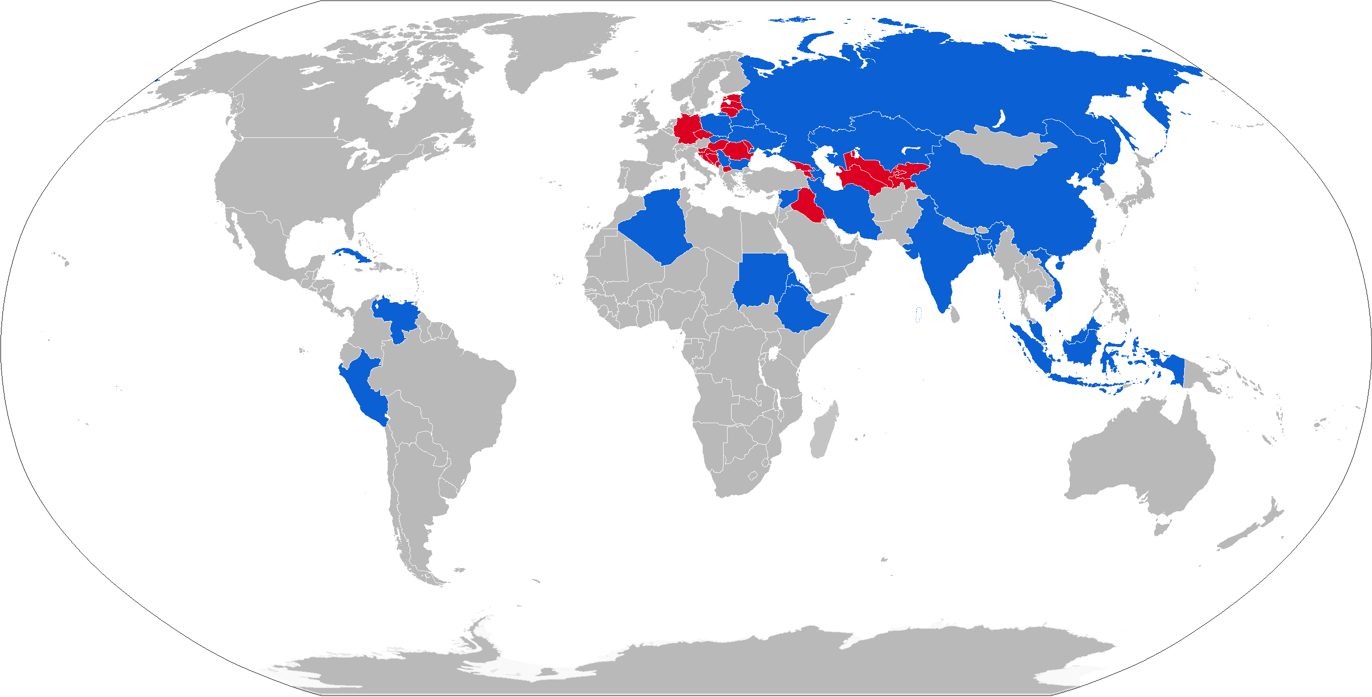 Map with R-27 operators in blue with former operators in red